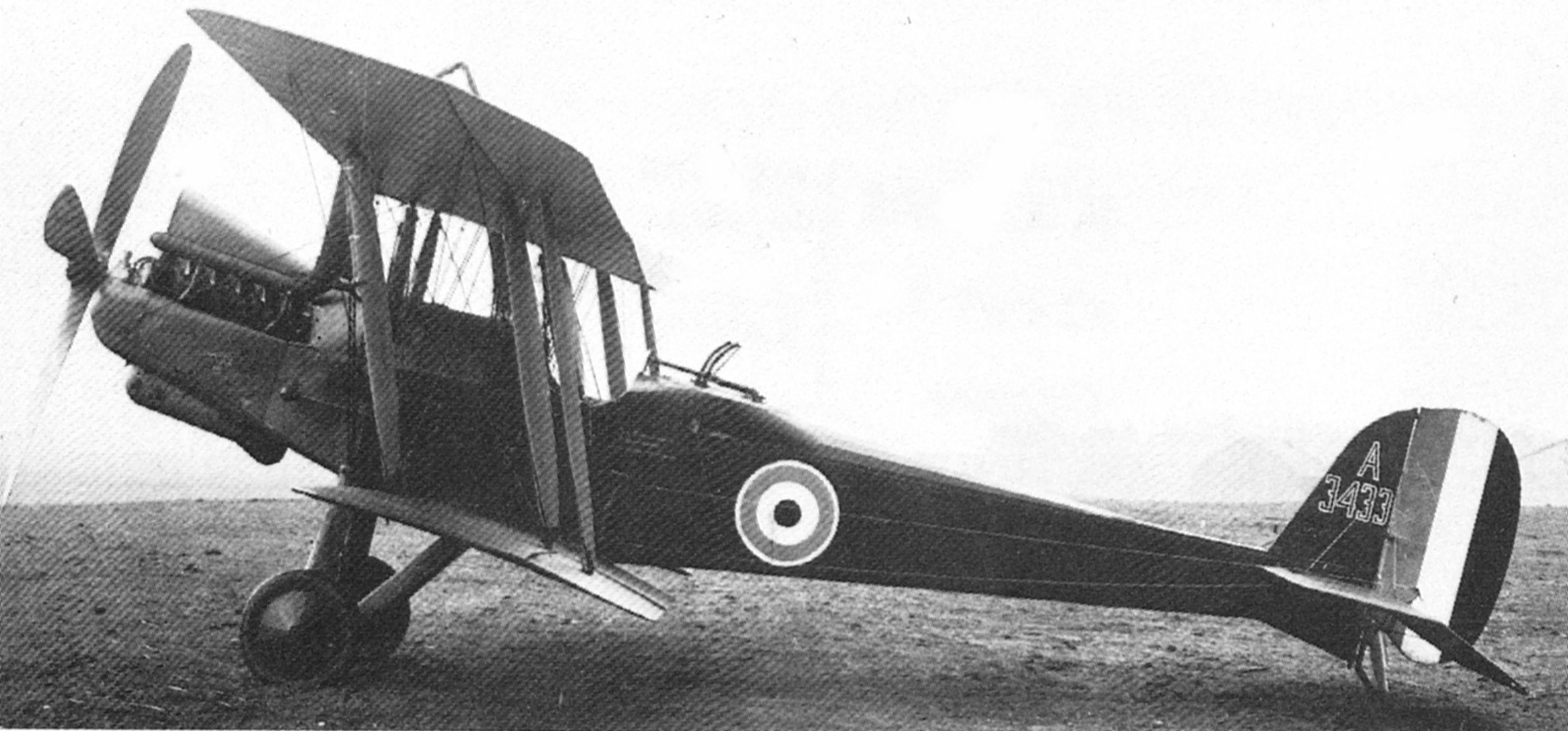 Early R.E.8 with initial small tailfin.